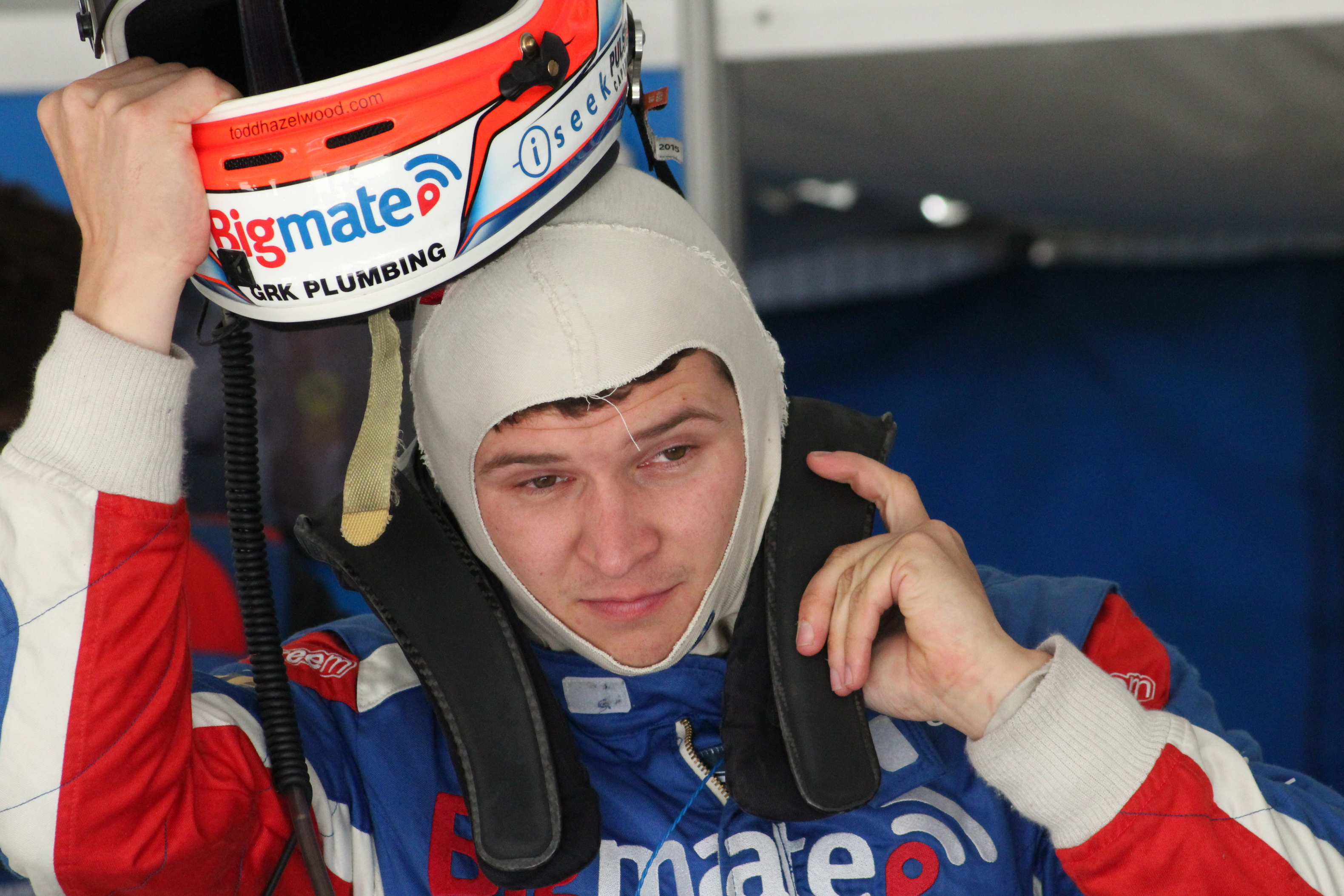 Todd Hazelwood, getting prepped for practise 2 at Newcastle